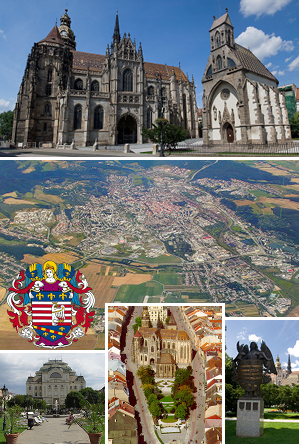 Montage of picture from Košice